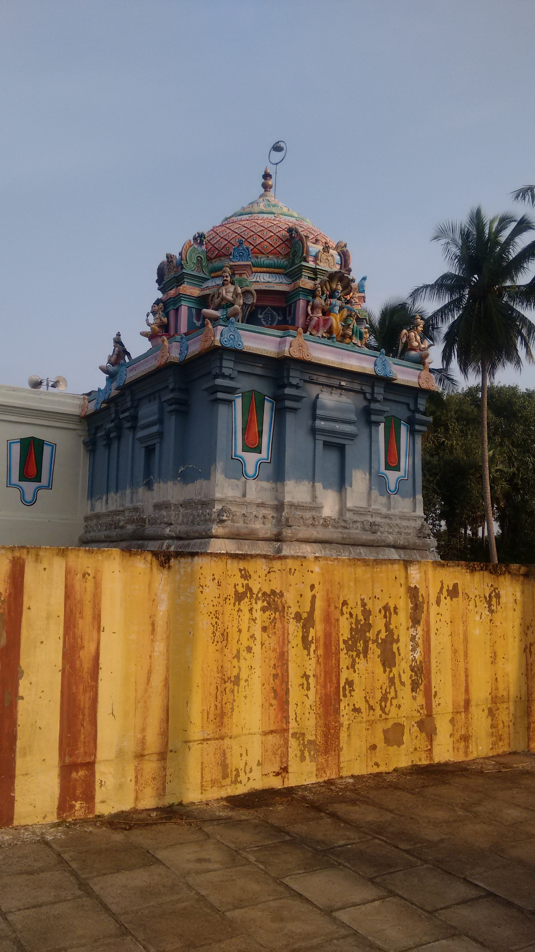 Talaichangadu nanmathiyaperumaltemple1 தலைச்சங்காடு நாண்மதியப்பெருமாள்கோயில்